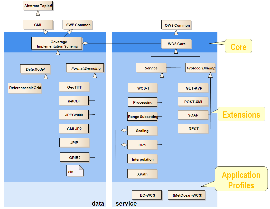 The Open Geospatial Consortium (OGC) Web Coverage Service (WCS) standard consists of a Core and several Extensions. This UML diagram shows Core and Extensions, as well as dependencies between them an on other OGC standards.